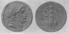 Silver Coin of Antiochus VII. Obverse: Head of Antiochus, diademed. Reverse:ΒΑΣΙΛΕΩΣ ΑΝΤΙΟΧΟΥ ΕΥΕΡΤΕΤΟΥ. Pallas armed, holding Nikē and spear.